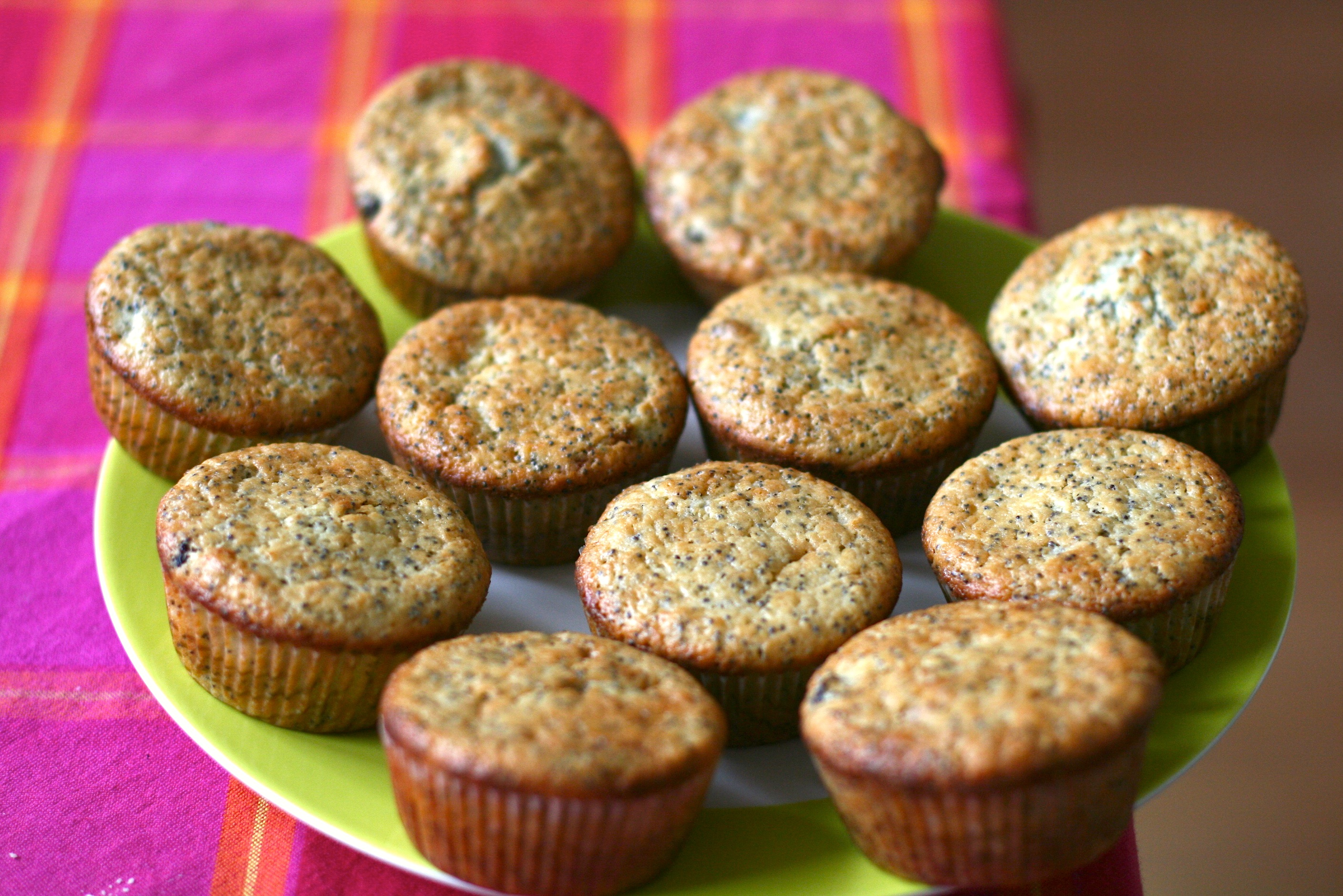 Cranberry-Mohn Muffins on plate.